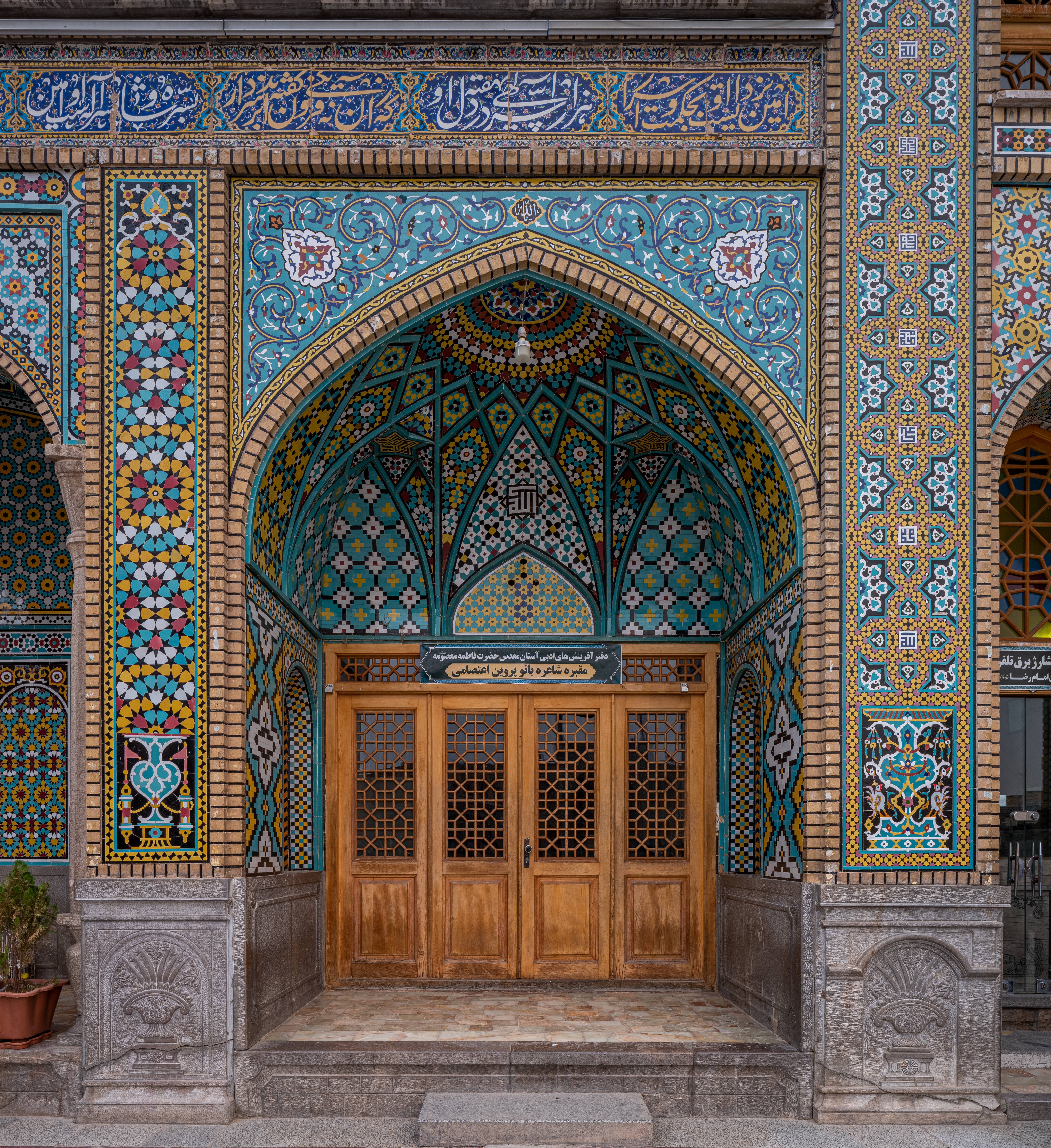 Parvin E'tesami tomb in Atabaki sahn at Fatima Masumeh Shrine, Qom,Iran